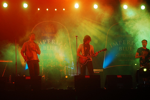 The band Strings at a concert.